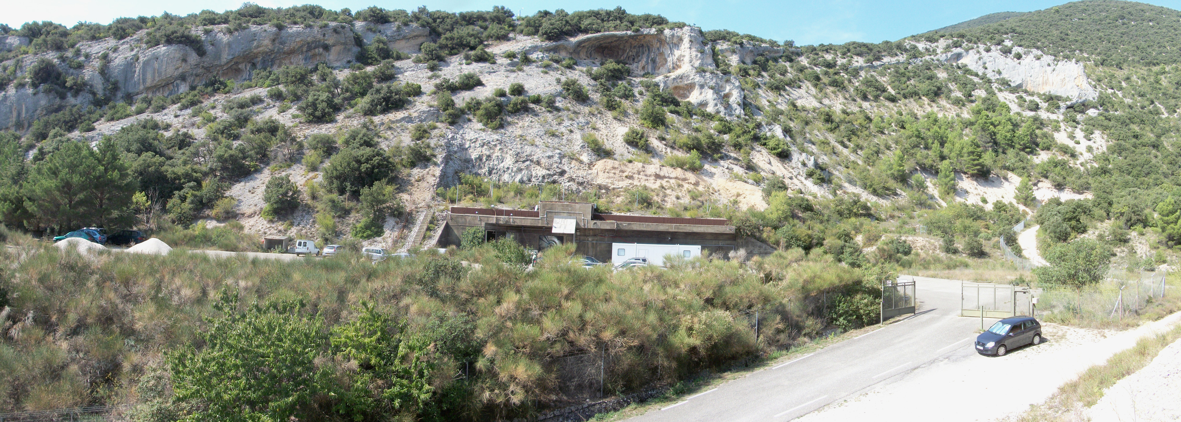 Site of the LSBB laboratory (Laboratoire Souterrain à Bas Bruit), in Rustrel, Vaucluse, France.